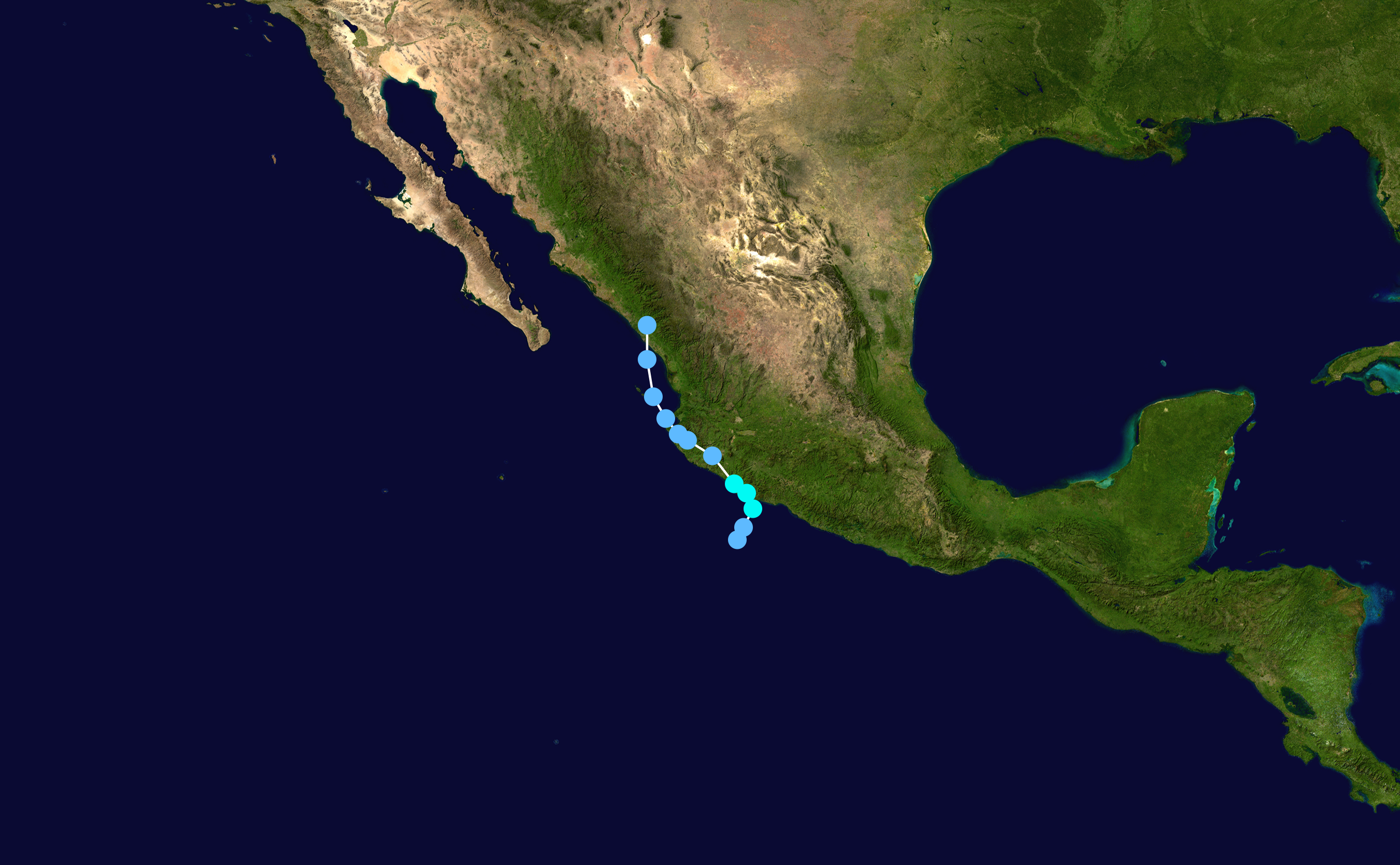 Track map of Tropical Storm Norman of the 2000 Pacific hurricane season. The points show the location of the storm at 6-hour intervals. The colour represents the storm's maximum sustained wind speeds as classified in the Saffir–Simpson scale (see below), and the shape of the data points represent the nature of the storm, according to the legend below. Saffir–Simpson scale Tropical depression≤38 mph≤62 km/h Category 3111–129 mph178–208 km/h Tropical storm39–73 mph63–118 km/h Category 4130–156 mph209–251 km/h Category 174–95 mph119–153 km/h Category 5≥157 mph≥252 km/h Category 296–110 mph154–177 km/h Unknown Storm type Tropical cyclone Subtropical cyclone Extratropical cyclone / Remnant low / Tropical disturbance